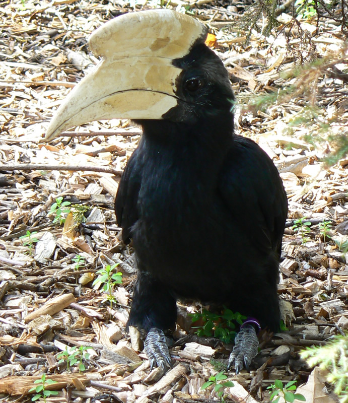 Malayan black hornbill (Anthracoceros malayanus) at London Zoo.